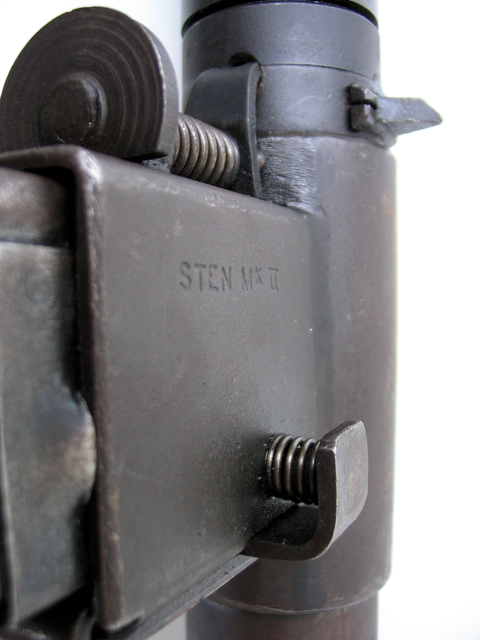 Sten Mk II submachine gun, a clip binding Aparat/Camera: Canon PowerShot A75